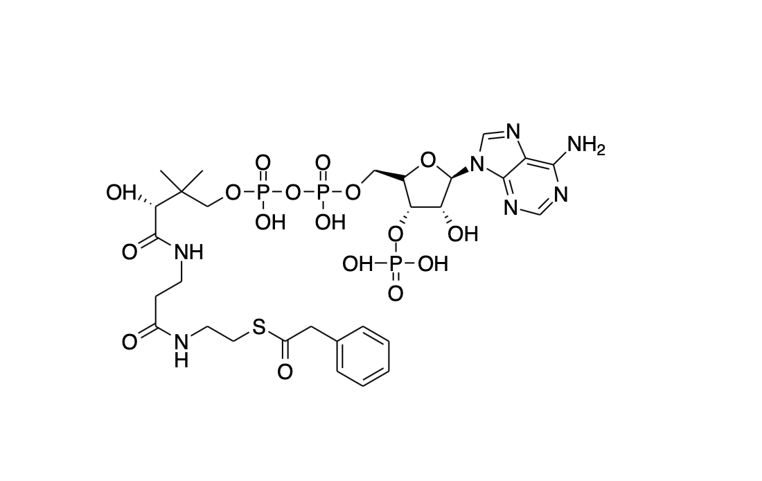 Phenylacetyl CoA Diagram